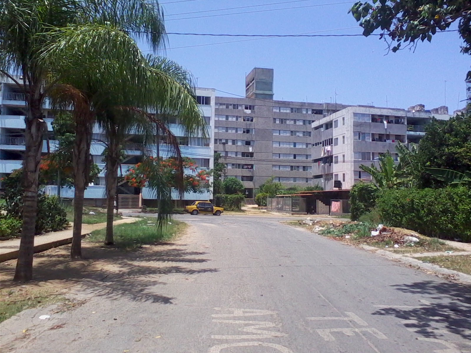 Alamar (district of Havana, Cuba).